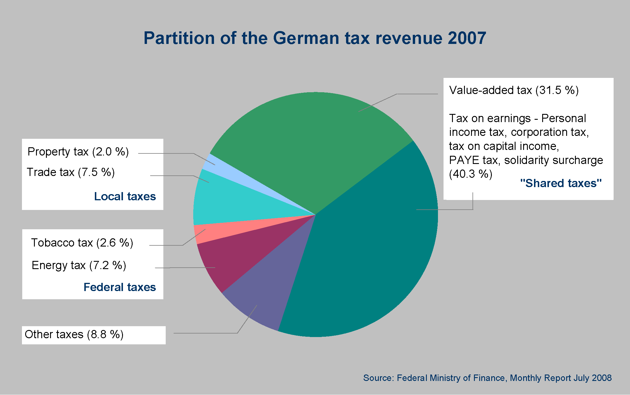 German Tax Revenue 2007